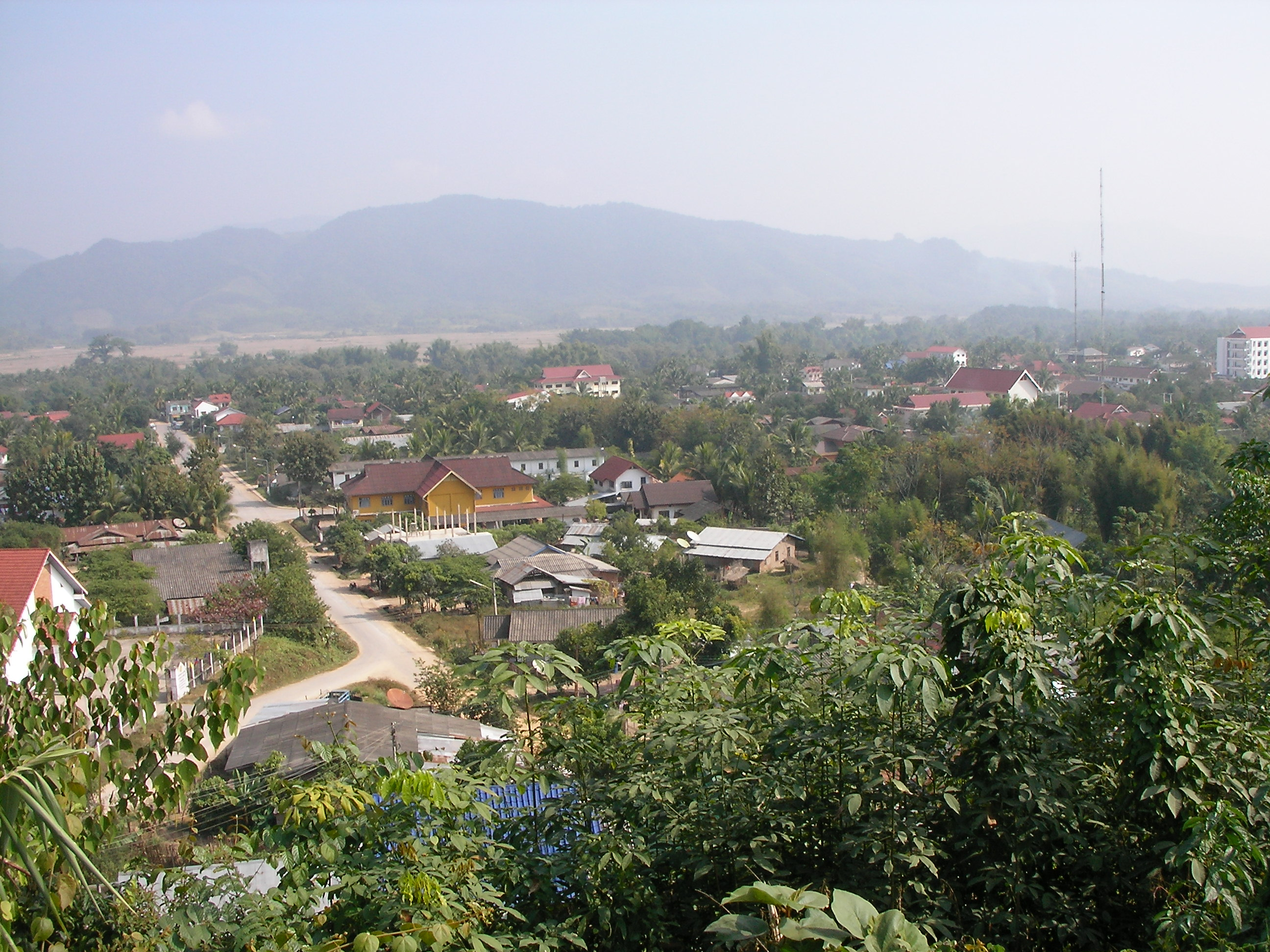 View of northern area of Luang Namtha, Laos, from the northwest